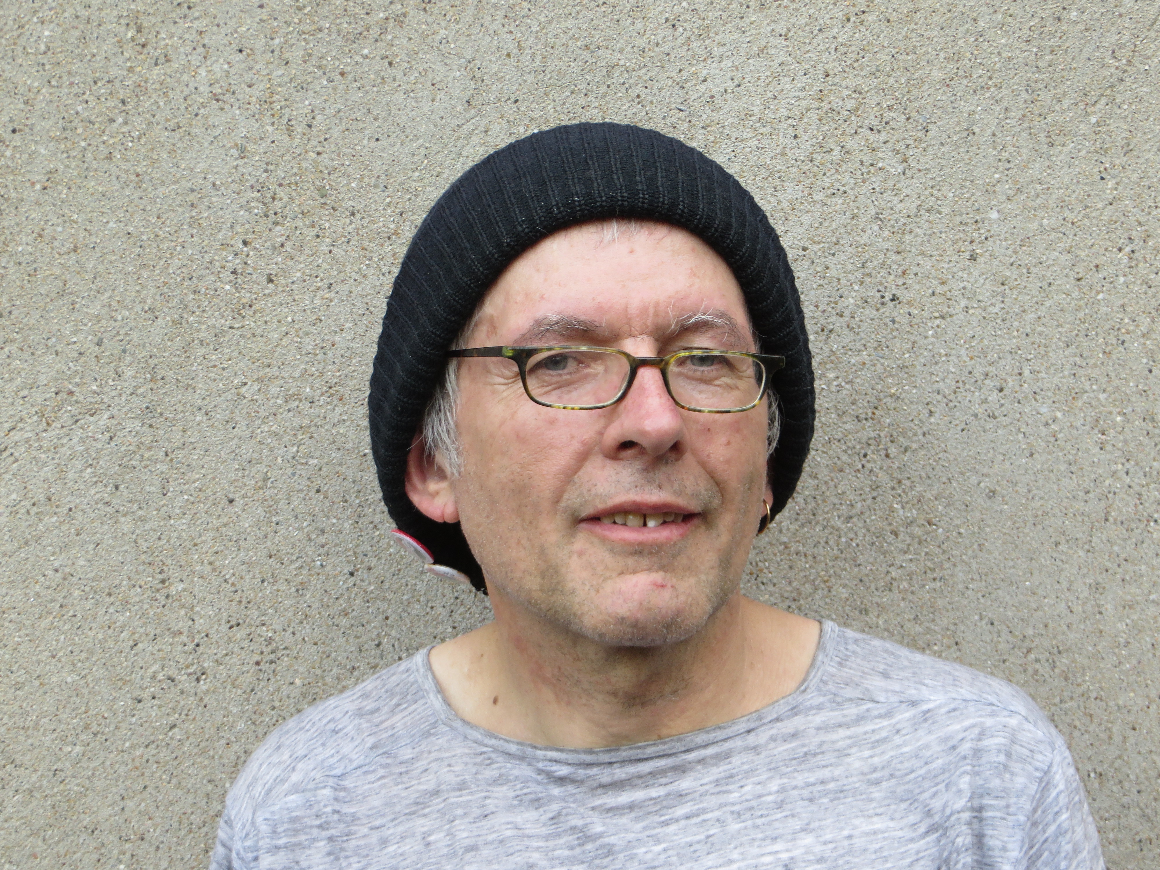 Peter Nowak , German journalist and opinion journalist